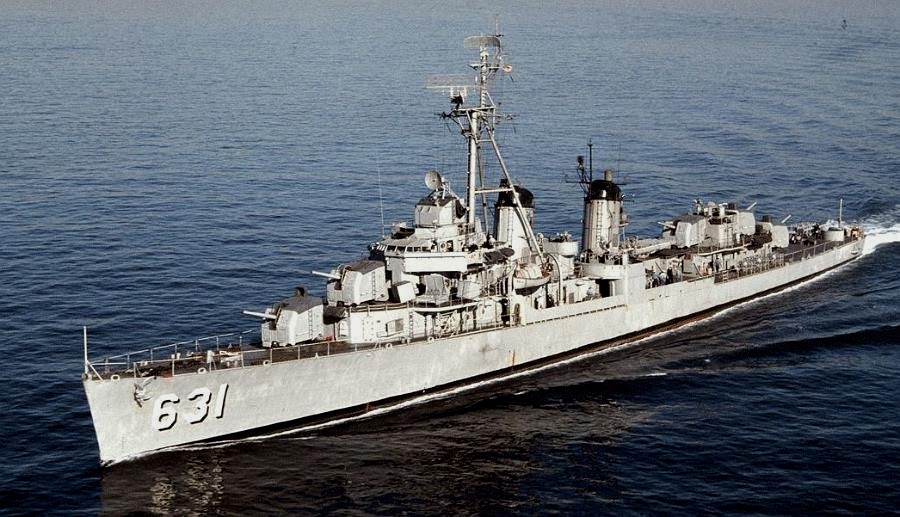 The U.S. Navy destroyer USS Erben (DD-631) underway the 1950s.